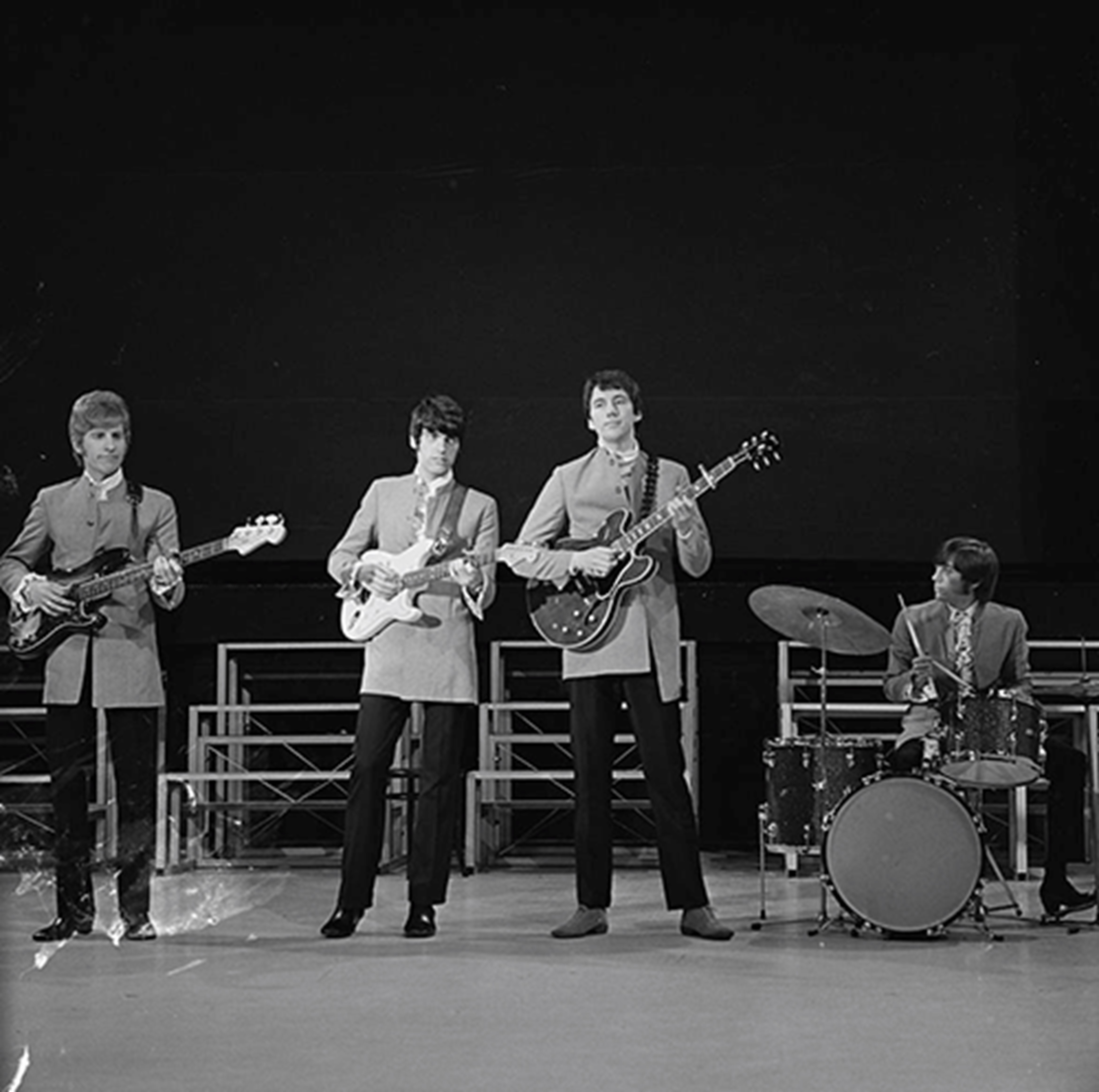 British pop group Honeybus recording for Dutch TV programme Fenklup, 3 May 1968 (broadcast 18 May 1968)